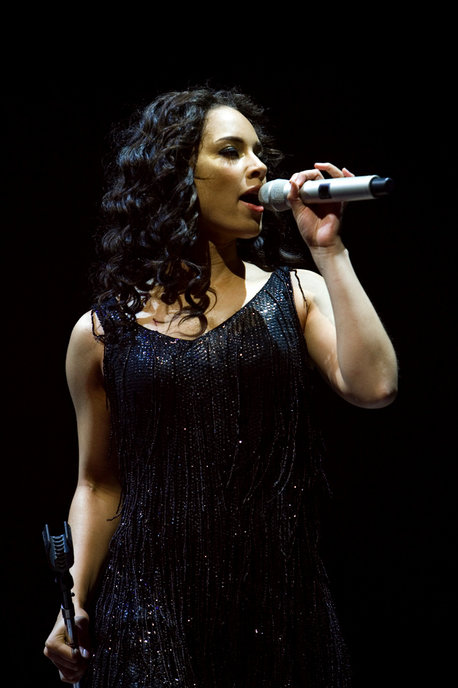 Alicia Keys at Pavilhão Atlântico (Lisbon, Portugal) on March 19, 2008